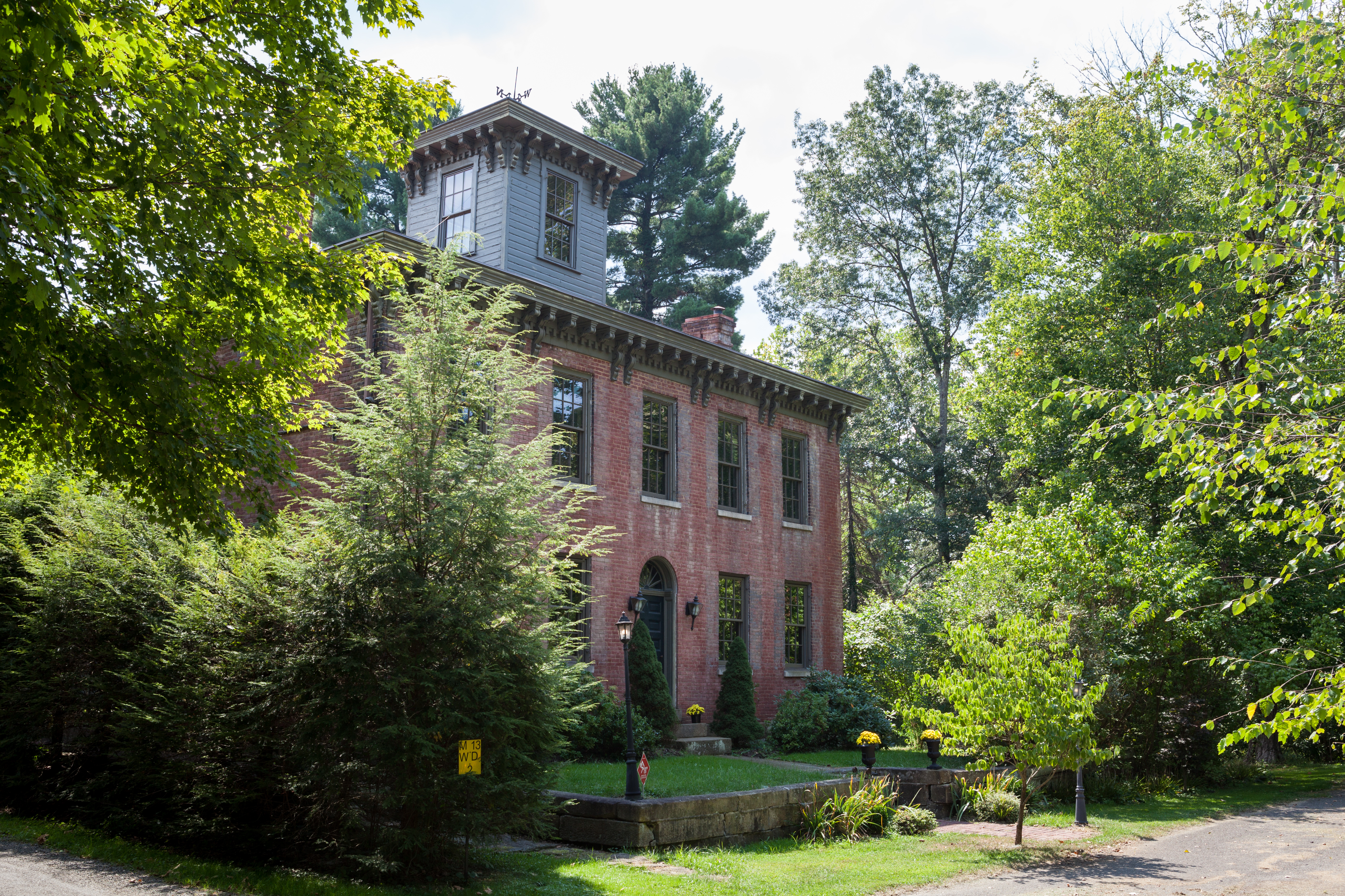 Old Watson Homestead House (c.1803), a historic home located at Smithtown, West Virginia, northeast corner.